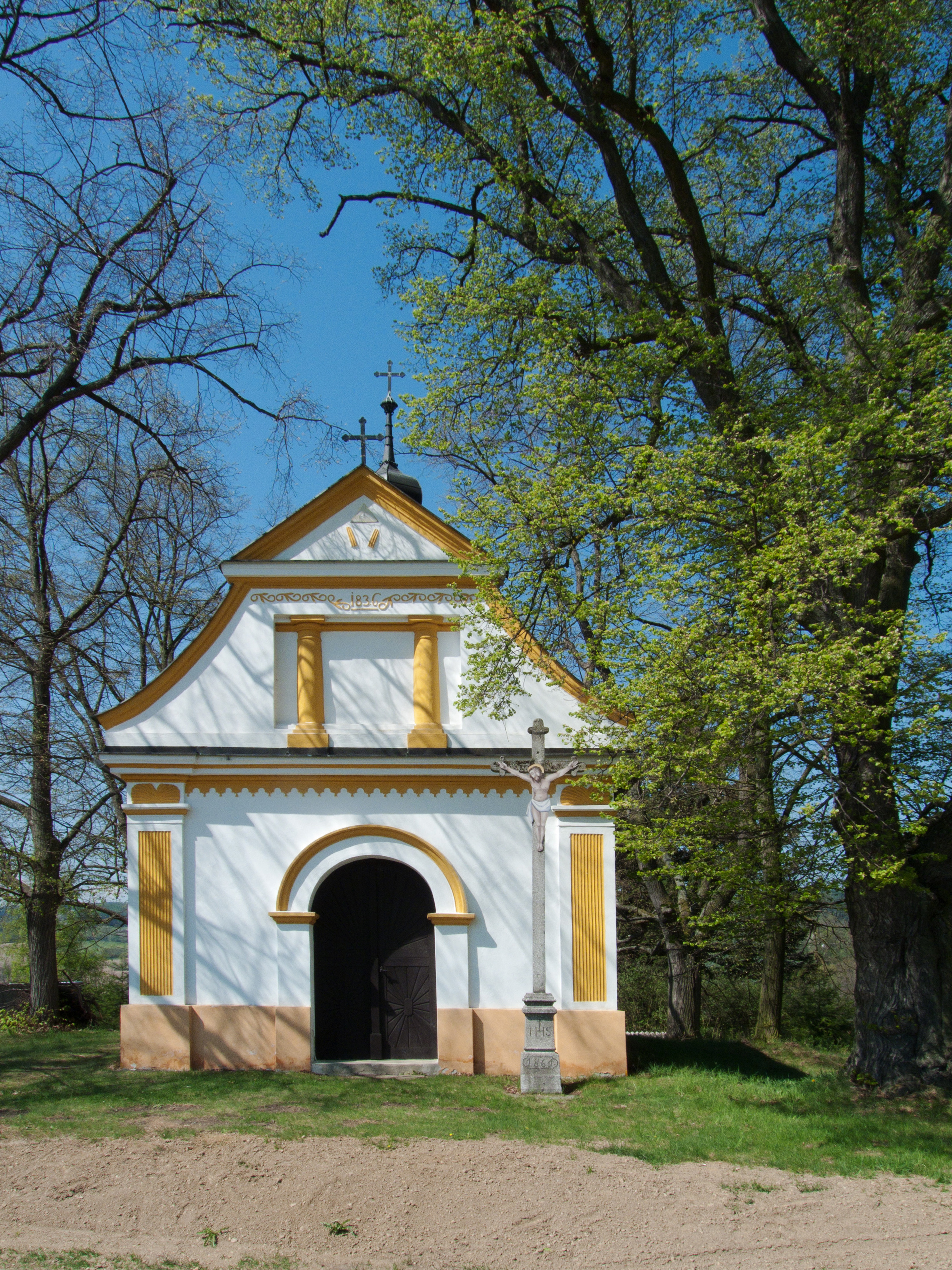 Saint Anne chapel in the village of Přechovice, Strakonice District, Czech Republic with a cross dated 1861.